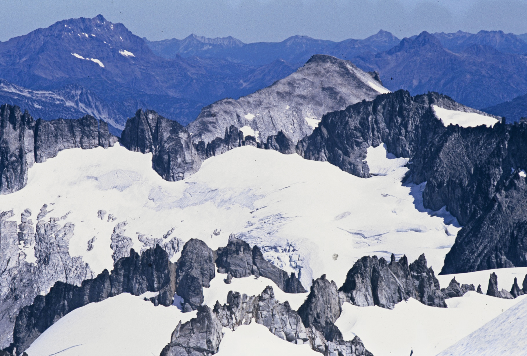 Tepeh Towers, Austera Towers, McAllister Glacier, Jack Mountain, Primus Peak with annotations. Viewed from Eldorado Peak in North Cascades National Park.